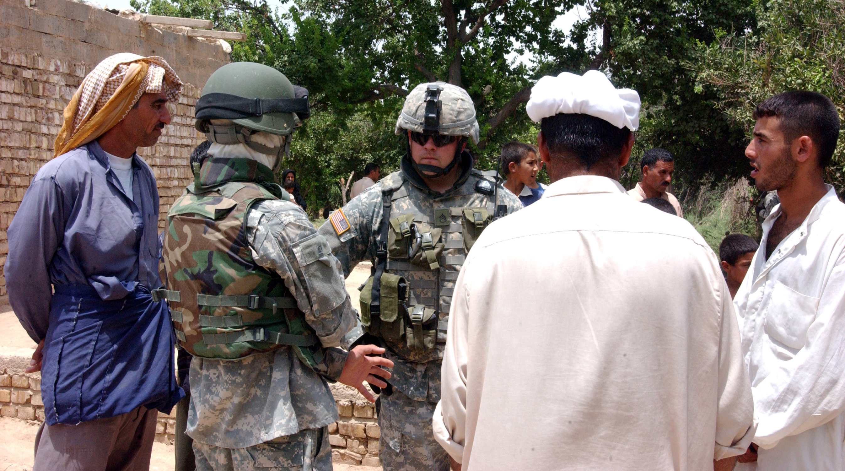 Staff Sgt. Donald White, patrol leader for Battery B, 3rd Battalion, 29th Field Artillery, 3rd Heavy Brigade Combat Team, 4th Infantry Division, talks with an Iraqi father whose daughter was killed by an insurgent mortar attack the previous day.